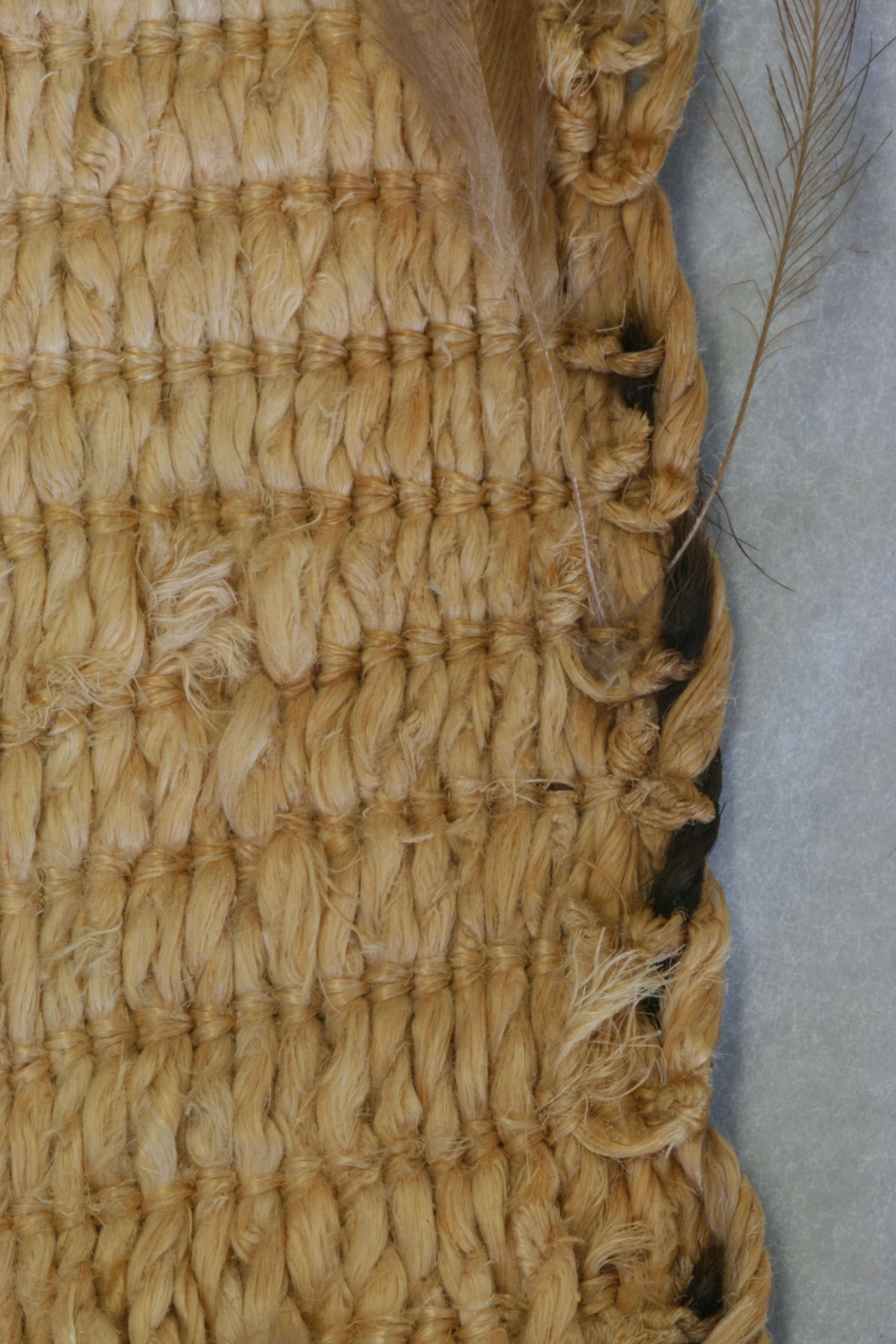 Detail of the side border of a Māori kahu kiwi (Kiwi feather cloak), showing the weave. This area of the cloak has most of the feathers worn off, but two kiwi feather can be seen in the upper right. The original cloak is held in the John Cawte Beaglehole Room at the Victoria University of Wellington.